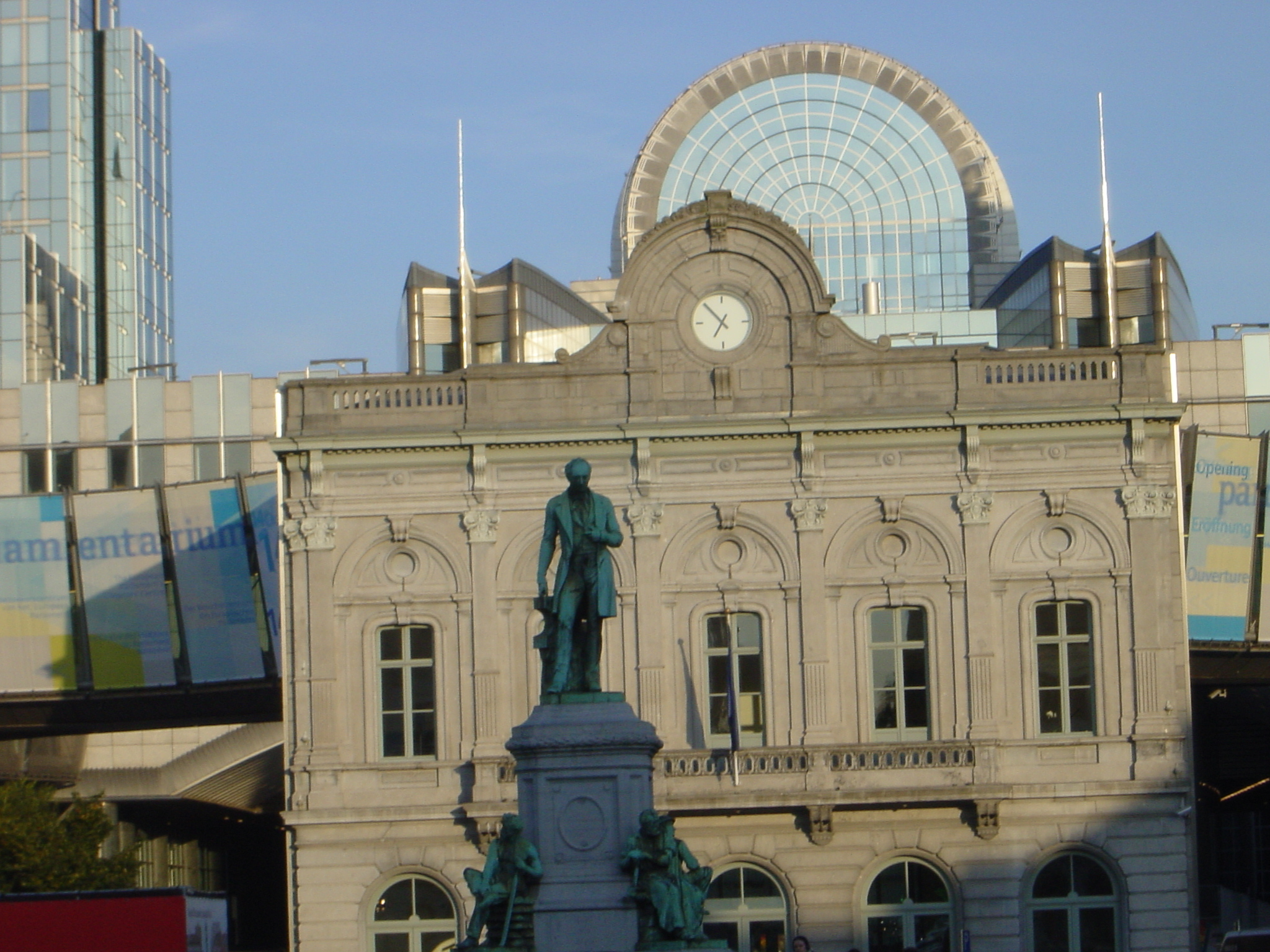 old train station, Cockerill statue in foreground, European Parliament in background